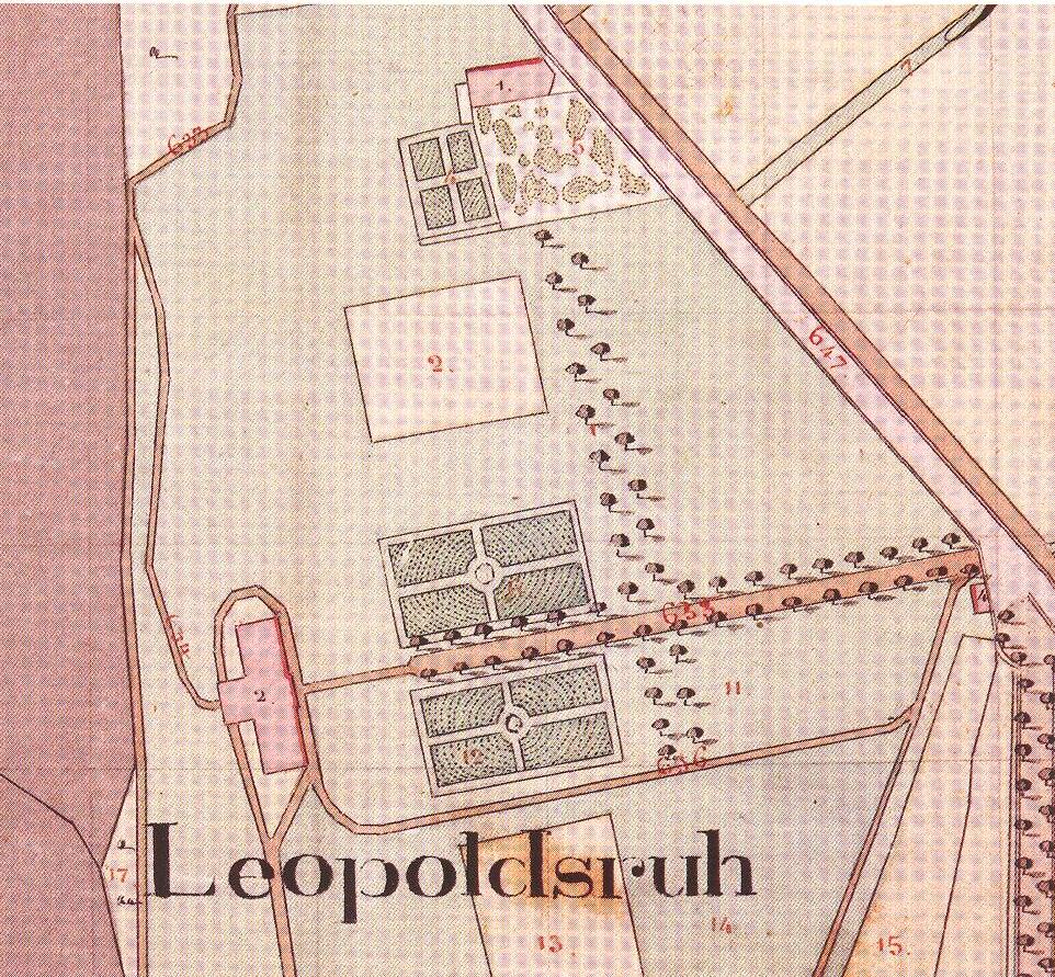 Cekinov castle, Ground-plan of arrangement, Franciscean cadastre